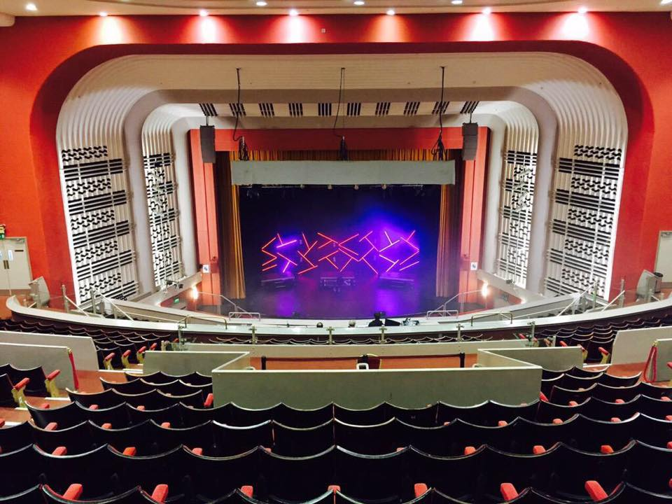 Inside the auditorium of The Deco, Northampton, looking northwest from the circle to the proscenium